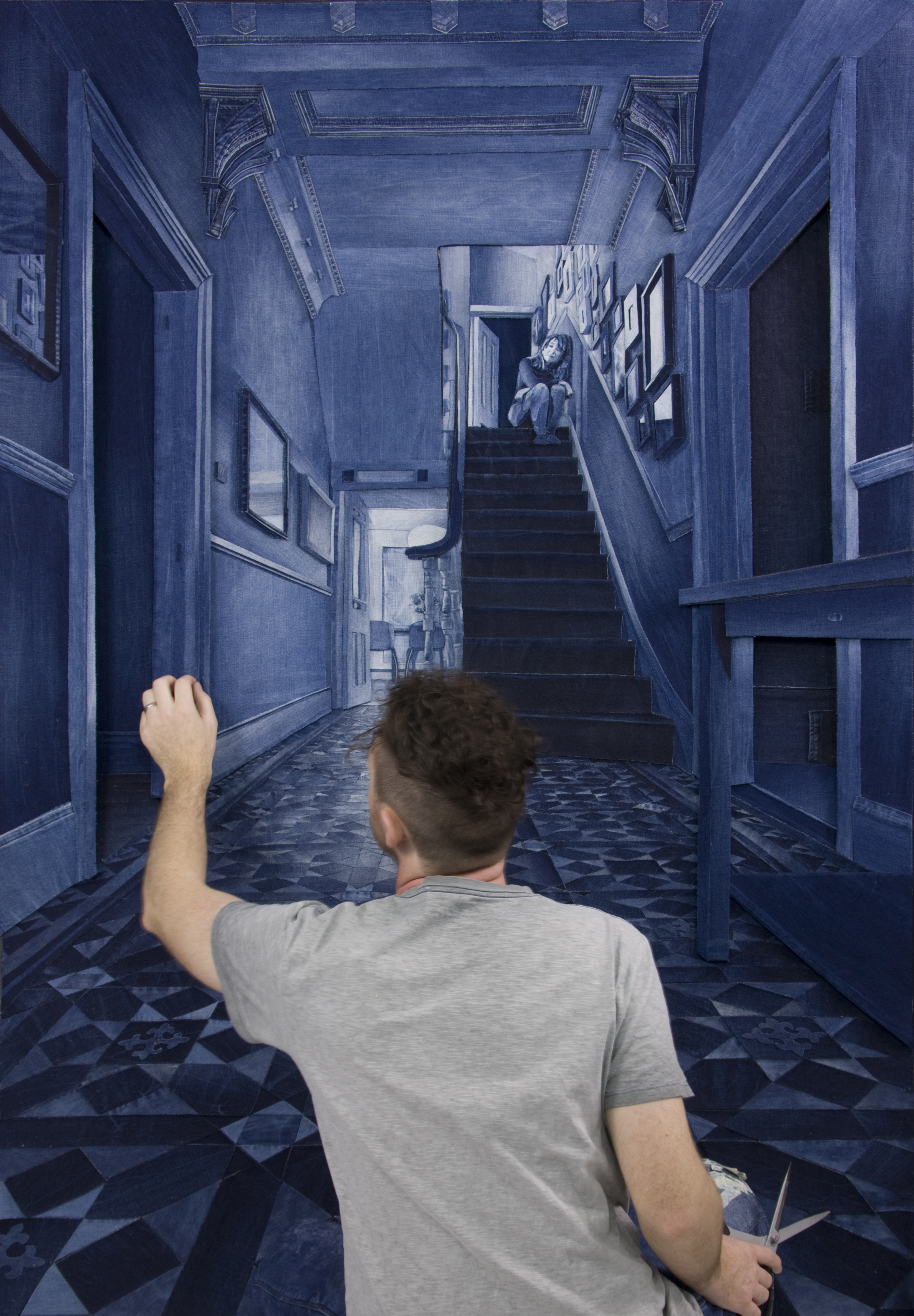 Ian Berry working on Behind Closed Doors, his piece made out of only denim.